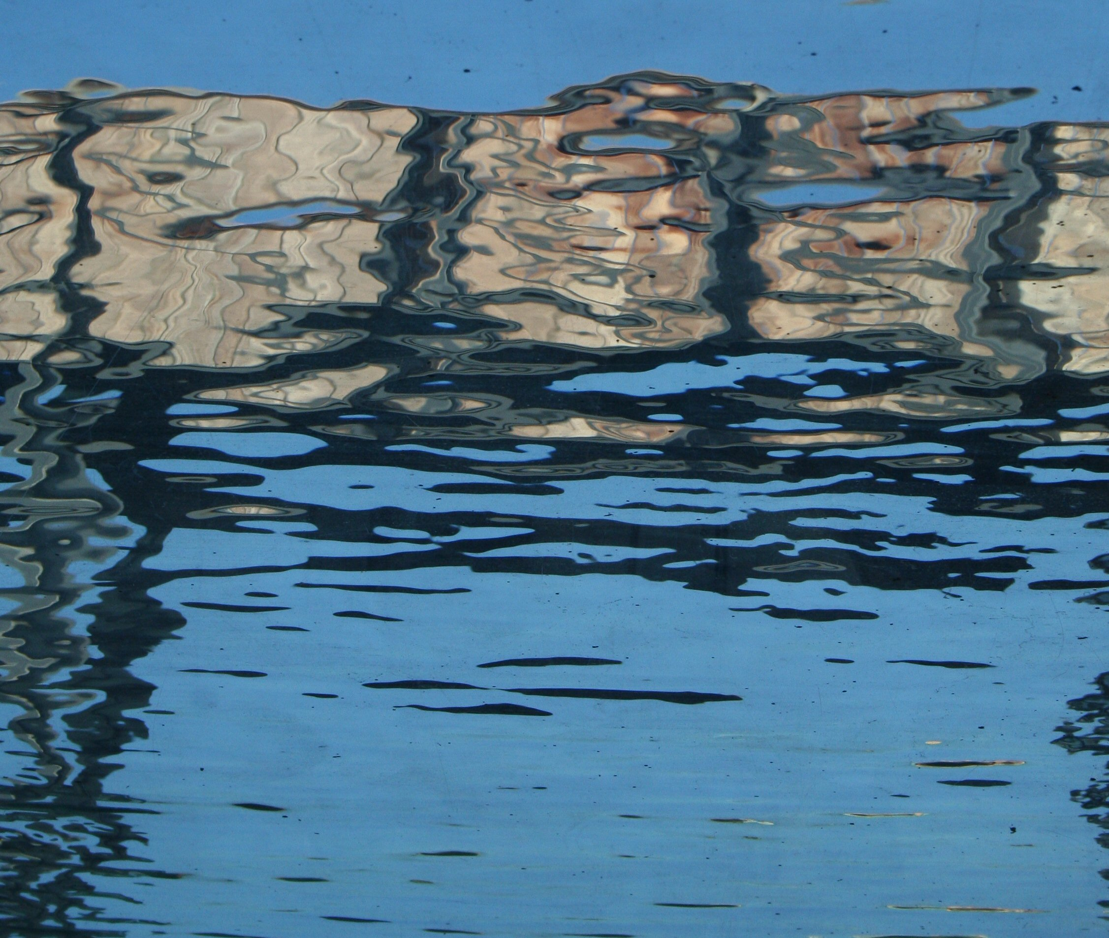 Reflections - picture by R Neil Marshman (c) - see metadata. Picture taken at the SS Great Britain in Bristol and from underneath the false water surrounding the ship.